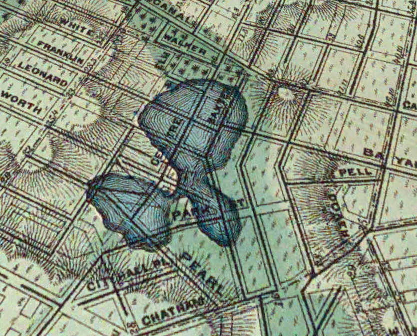 Section of Viele Map showing Collect Pond and Five Points